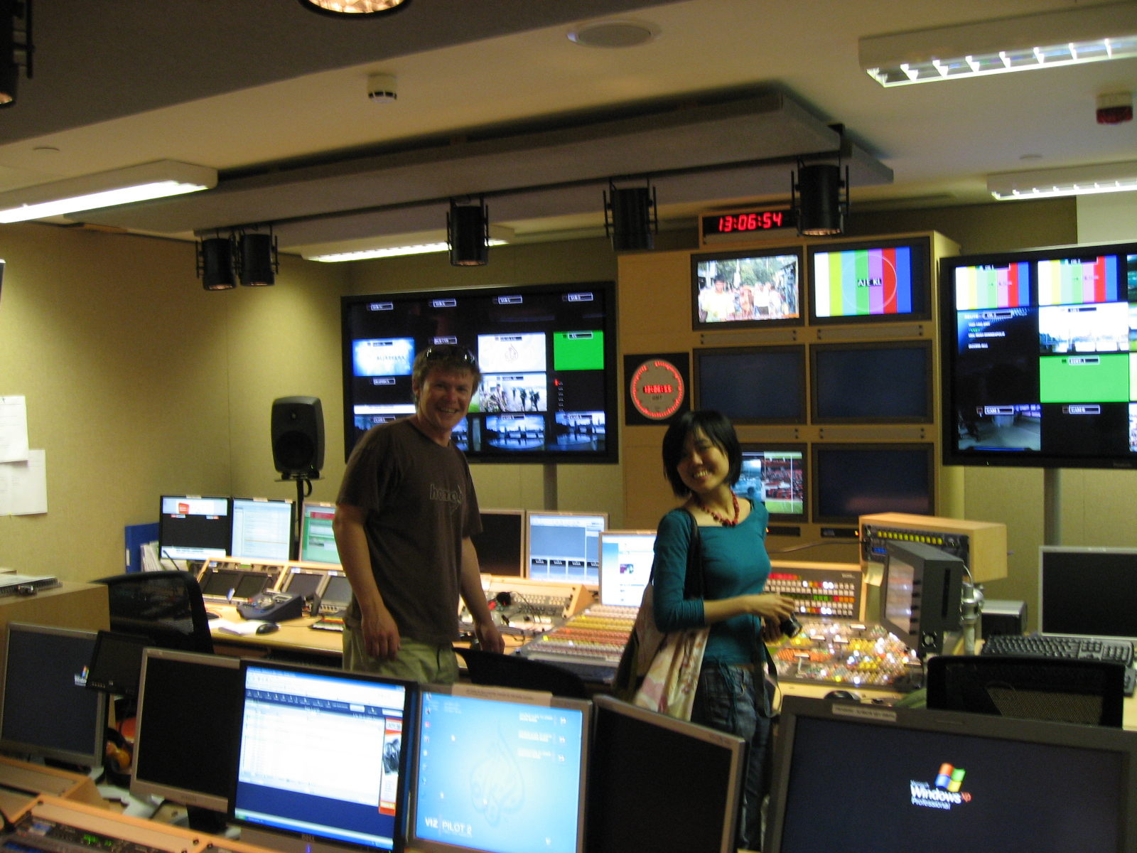 Visiting Al Jazeera studios in London.